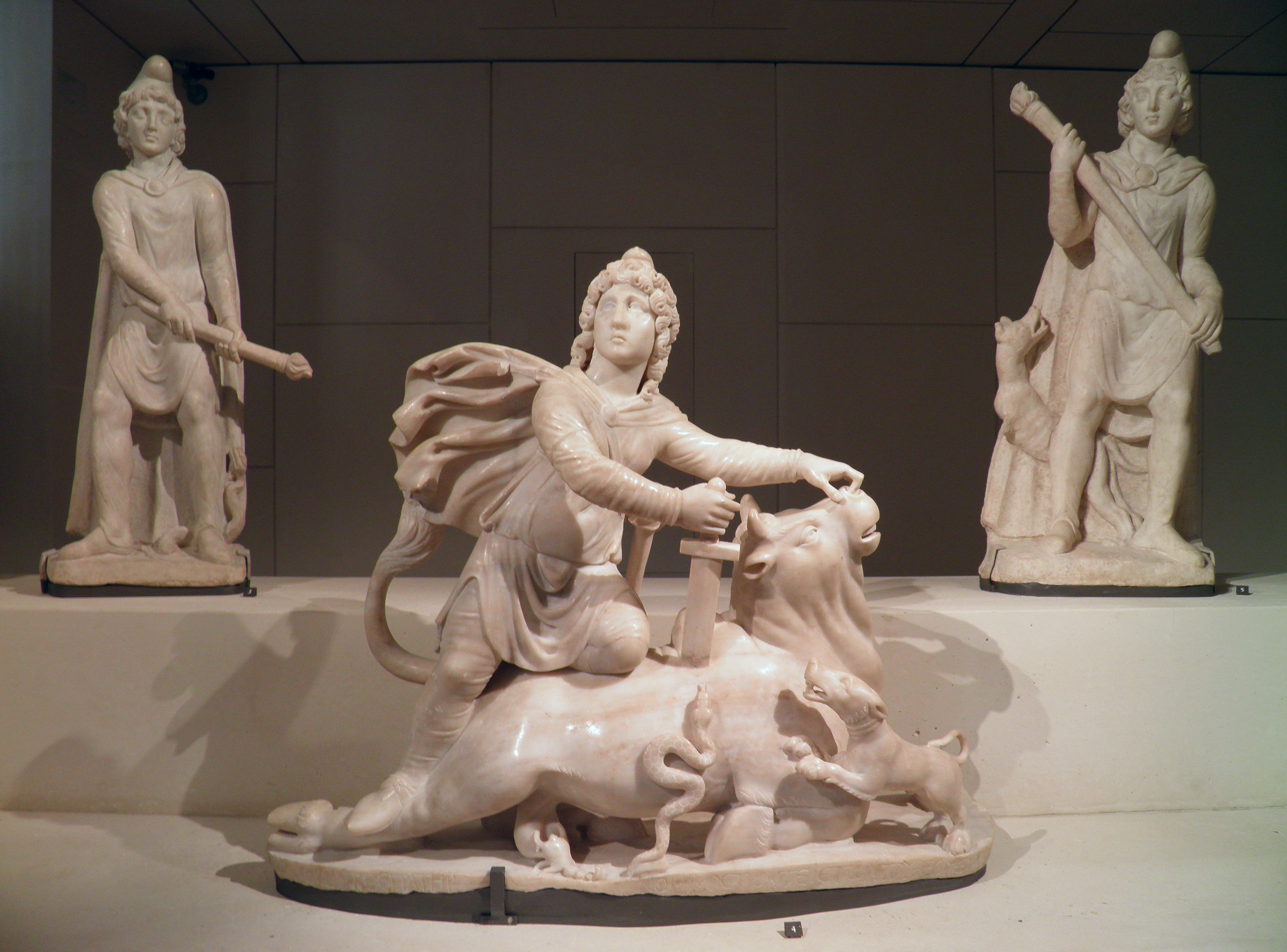 Statutory group depicting the cult of Mithras, Mithras slaying the bull accompagnied by his two torchbeares Cautopates (left) and Cautes (right), from the Mithraeum at Sidon (Colonia Aurelia Pia, Syria), Louvre Museum